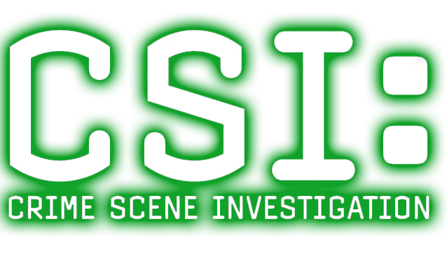 Logo of CSI